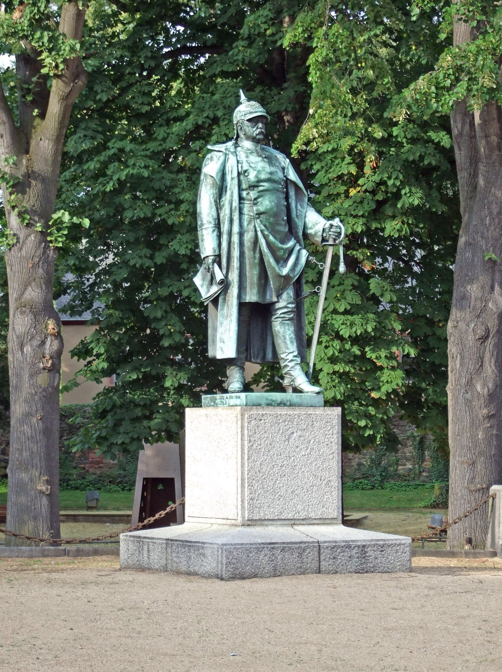 Bismarck-Memorial in Frankfurt am Main-Hoechst